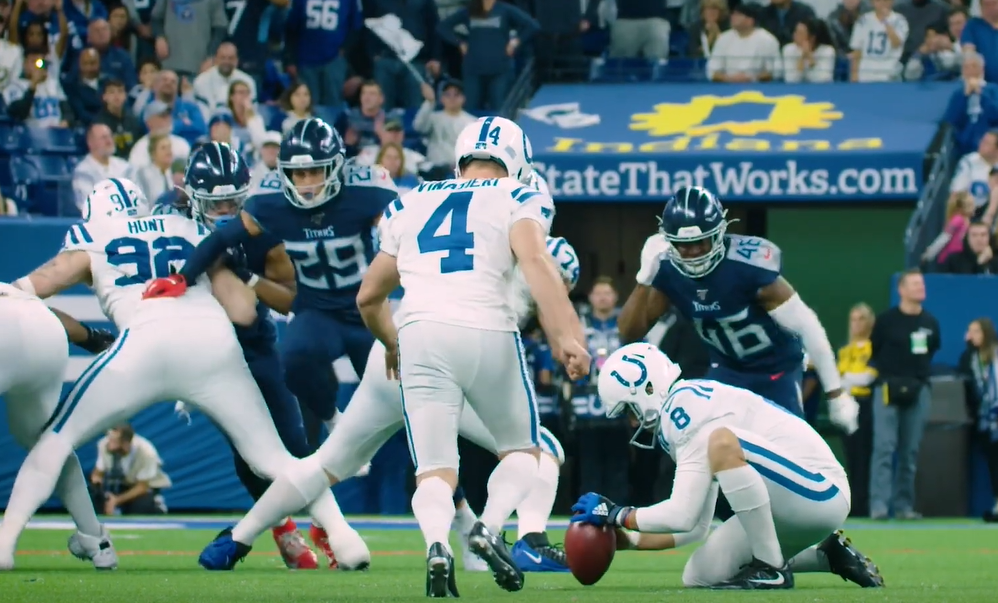 Adam Vinatieri 2019. Image from video Blocked FG Return Sparks Week 13 Victory | Touchdown Tuesday, ~ 00:08.